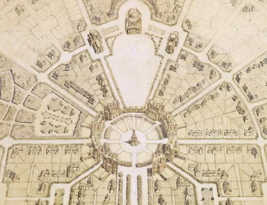 A masterplan for Withington by local architect, Edgar Wood. The drawing was published in 1909. Wood designed a suburb consisting of radiating circular roads populated by low-rise, semi-detached houses and large gardens.